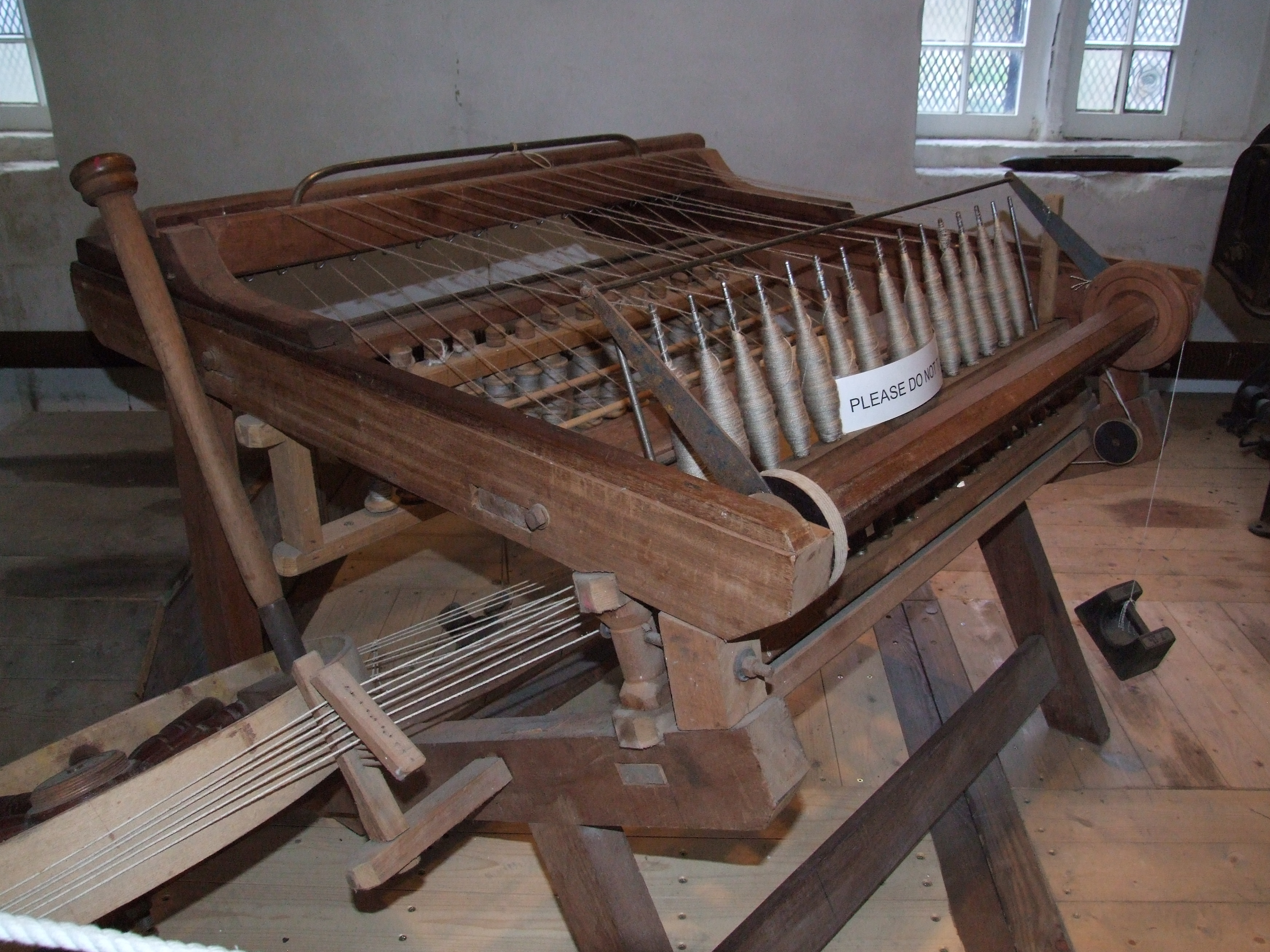 Helmshore Mills Textile Museum. - Google Maps - Google Earth An early spinning jenny